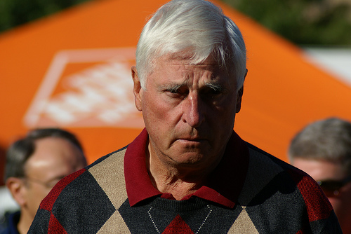 Photo Credit: Truett Holmes Former Texas Tech Red Raiders basketball coach Bob Knight at College GameDay in Lubbock, Texas, on November 1, 2008